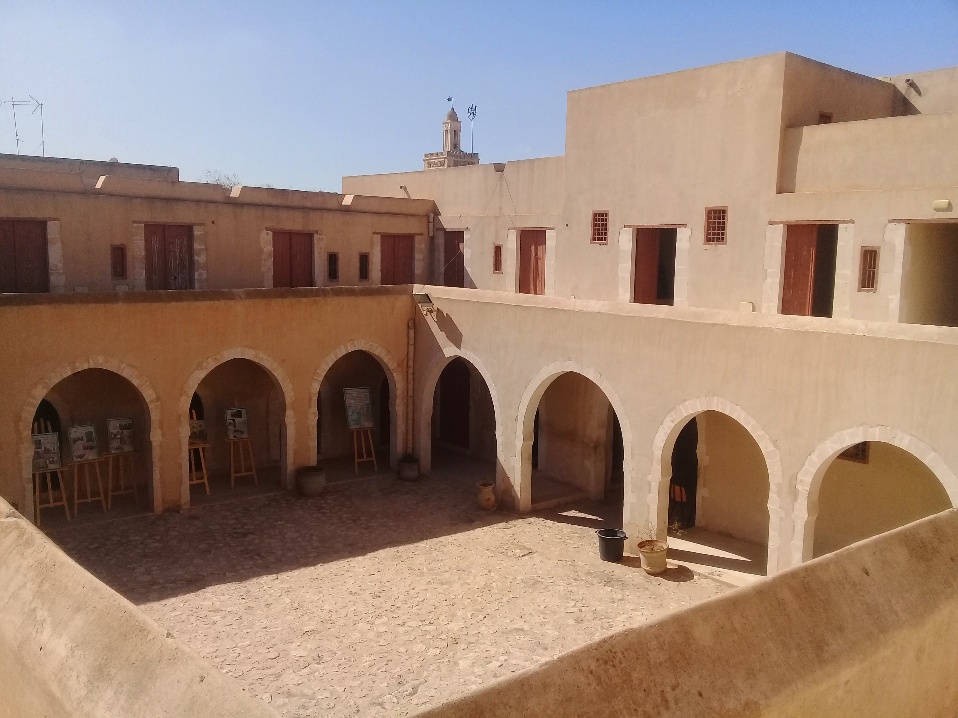 General view of Fondouk El Haddadine in the medina of Sfax.